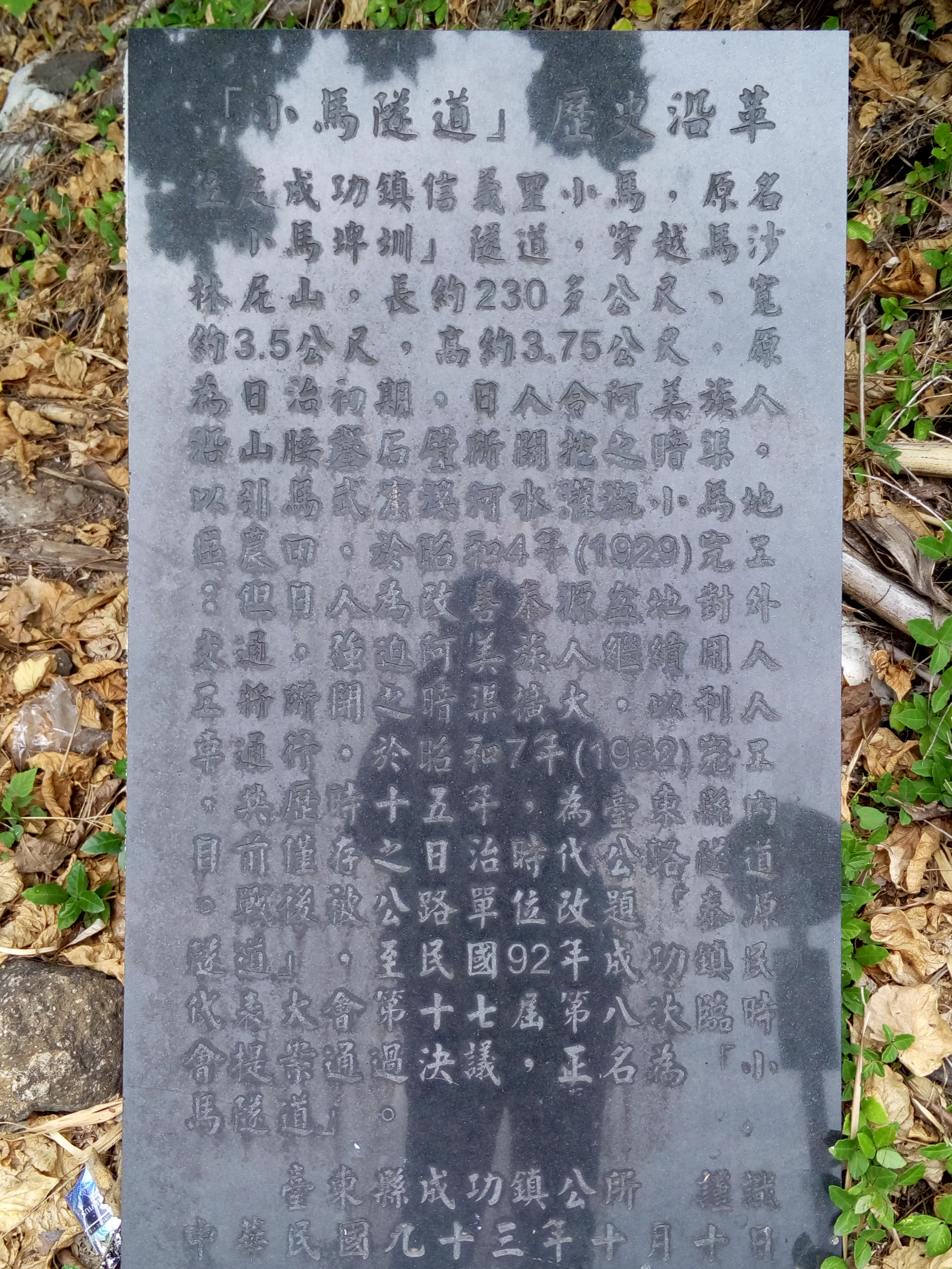 Taiwan(R.O.C) Taitung Donghe Tai-Yuan Tunnel